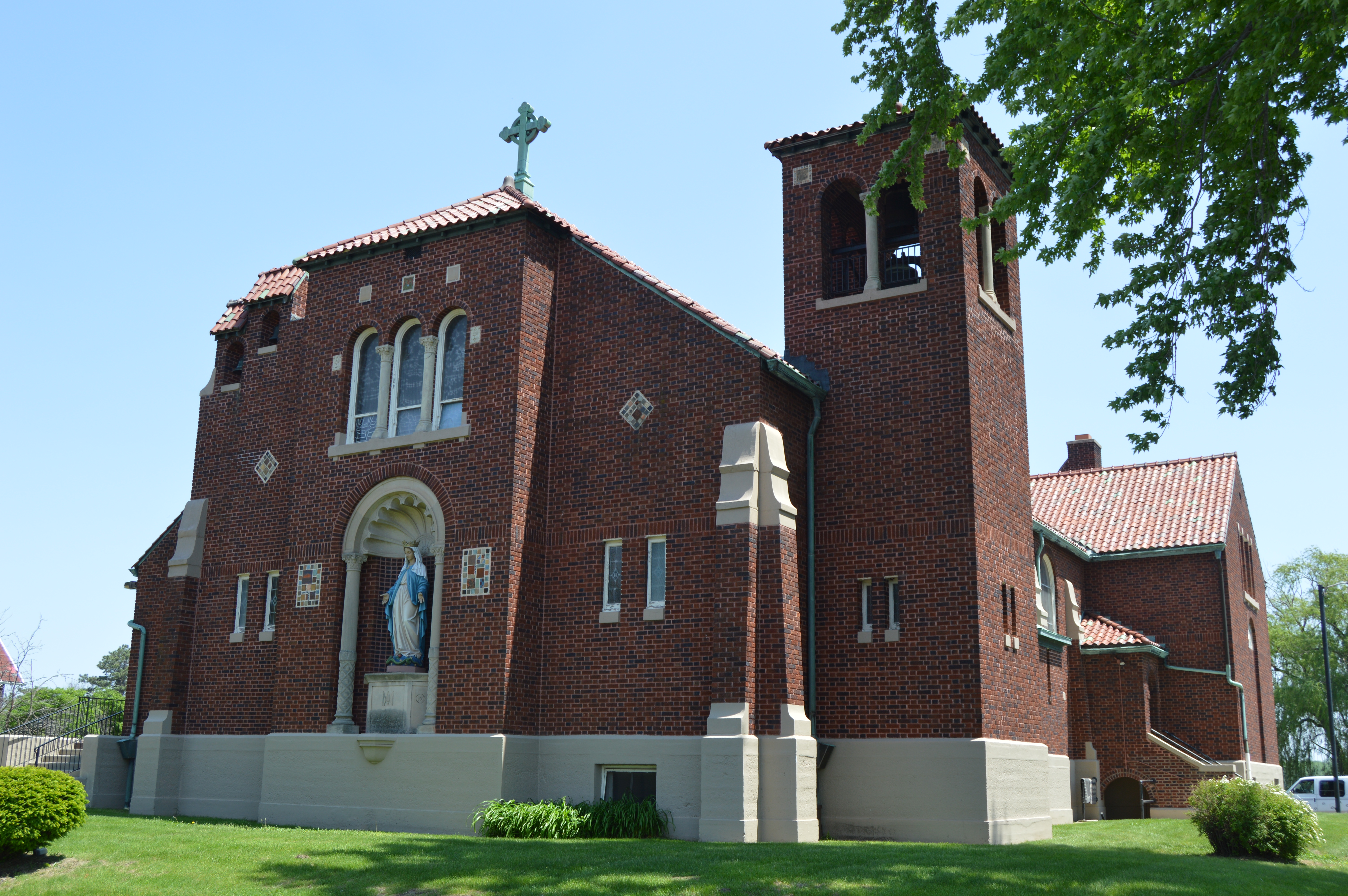 Front and southern side of Immaculate Conception Catholic Church, located at 1750 N. Raab Road in Spencer Township, Lucas County, Ohio, United States. It was built in 1925.